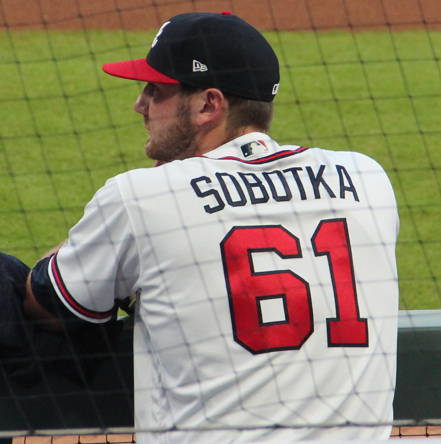 Bryse Wilson, Chad Sobotka, Kyle Wright in dugout